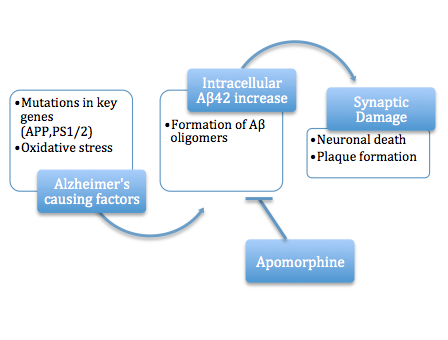 Flow chart depicting the states leading to Alzheimer's disease. Apomorphine is shown in its proposed role hindering the progression of the disease.